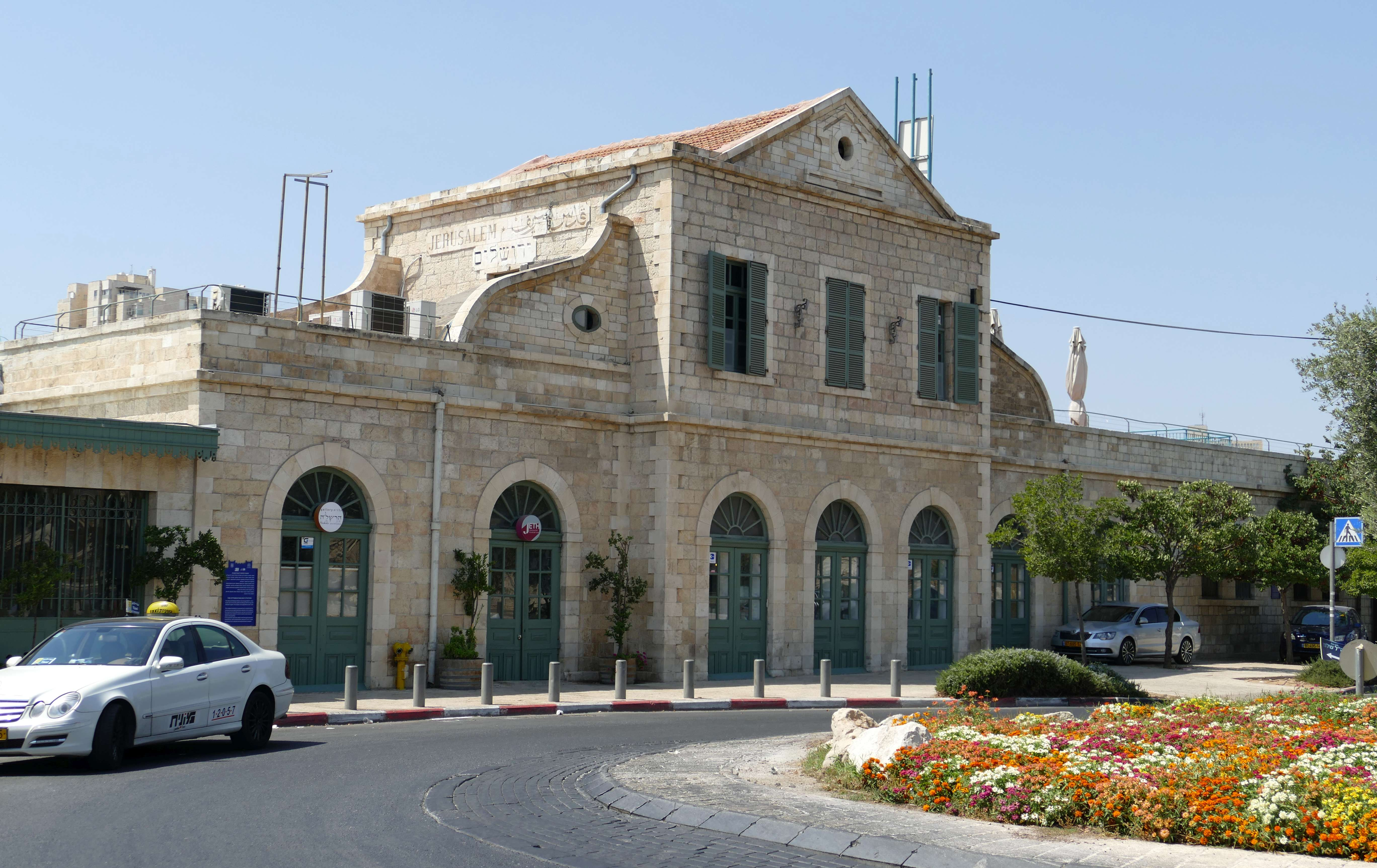 Ottoman train station and surroundings in Jerusalem, Israel.